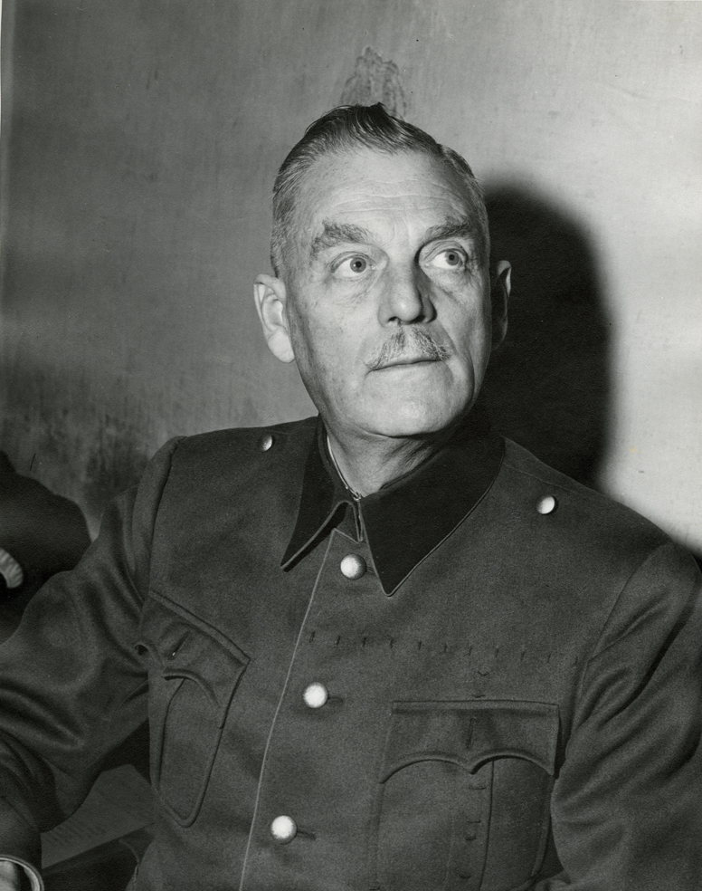 Defendant Wilhelm Keitel photographed in his cell during the Nuremberg Trials, Nuremberg Germany. Gelatin silver process on paper. 28 cm x 35.3 cm. Image courtesy of the Harvard Law School Library, Harvard University, Cambridge, Mass.